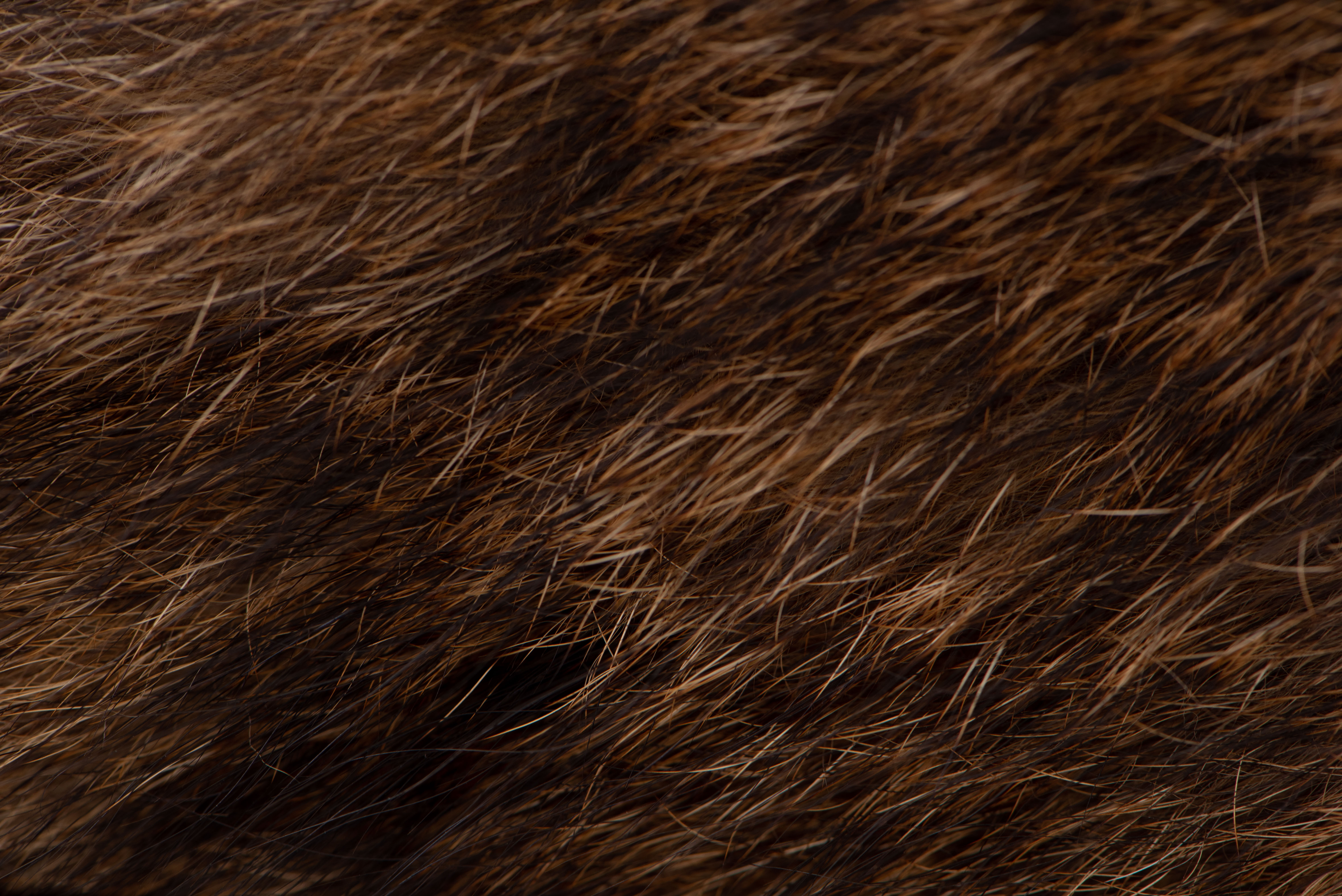 Warrah or Falkland Island wolf (Dusicyon australis) fur, from the specimen held at Otago MuseumDusicyon australis